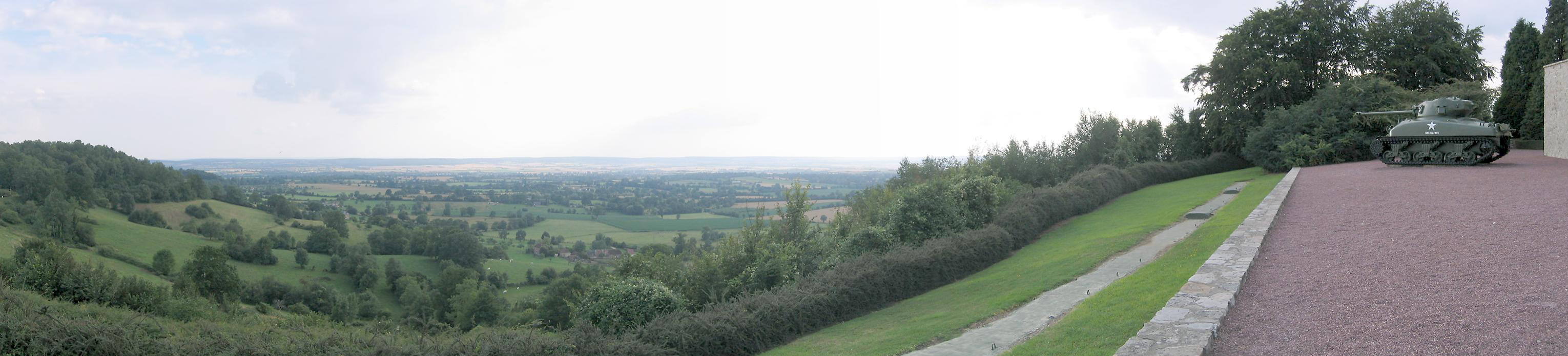 View from Mont Ormel (Hill 262) into the valley of Dives